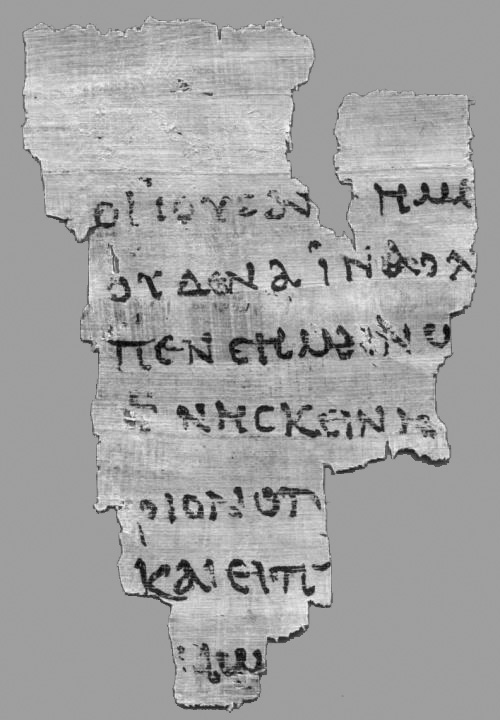 Papyrus 52 (Replica), recto: Joh 18,31-33